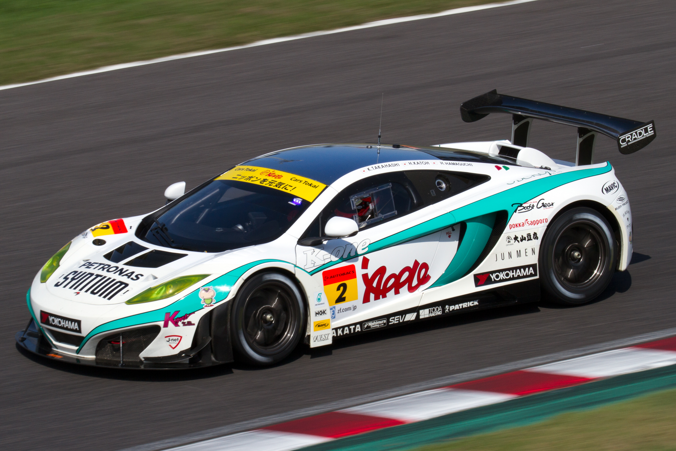 Super GT 2014 Rd.6 Suzuka 1000km: Hiroki Katoh (Cars Tokai Dream28)